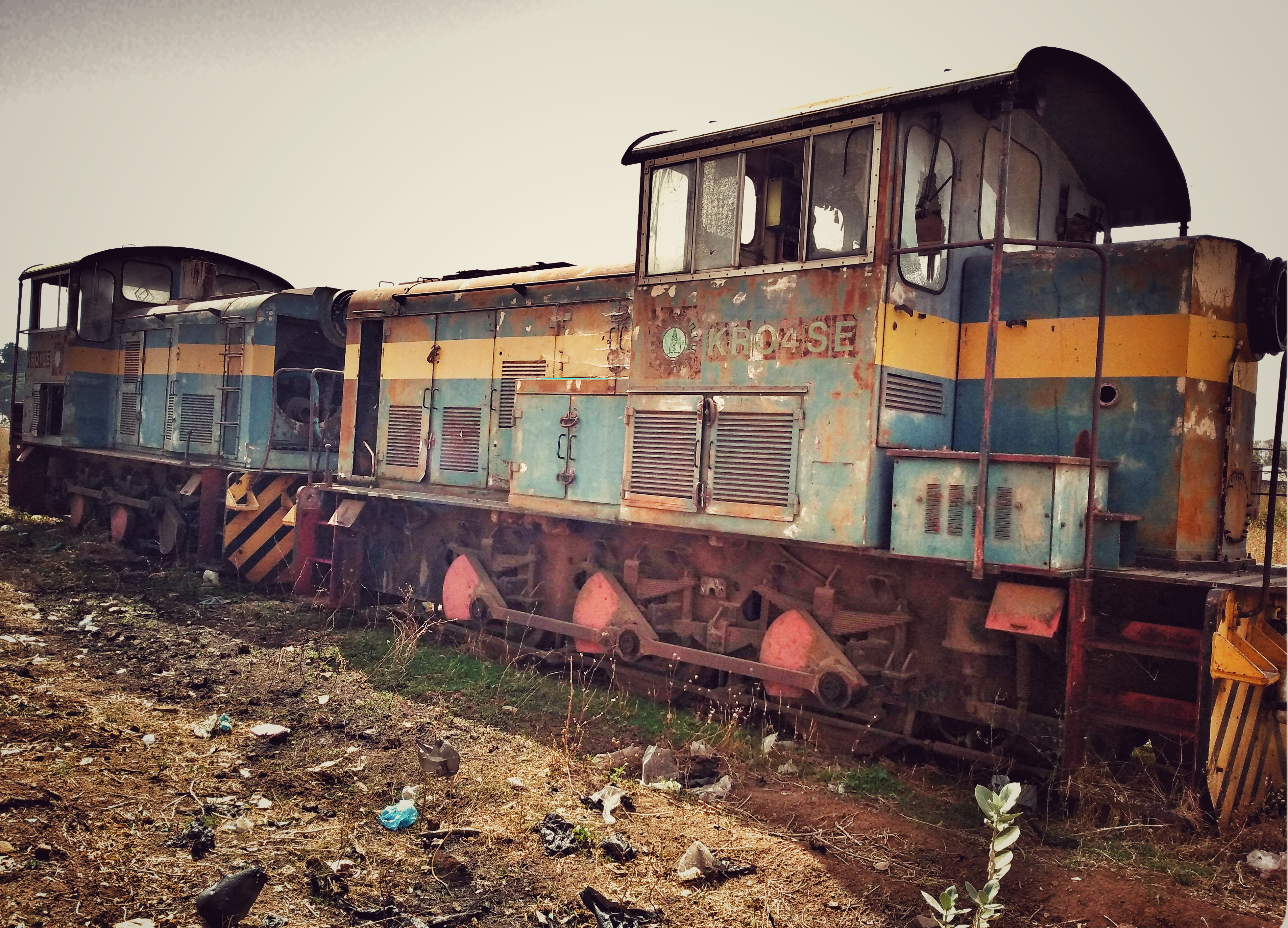 Nigerian Railway system has almost collapse with most of its structure , machines and trains not functioning and in the public space. This is an image with the theme "Play" from: Nigeria